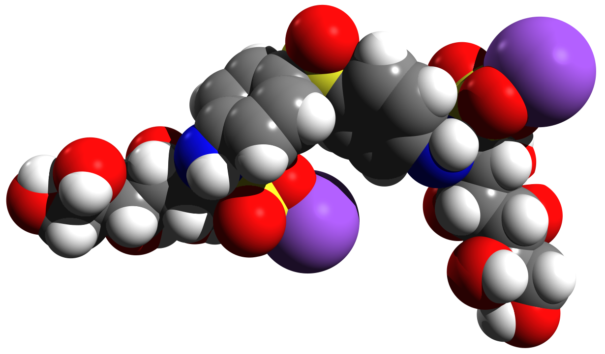 Molecular structure of Promin, space-filling model made in Avogadro, ray-traced with POVray